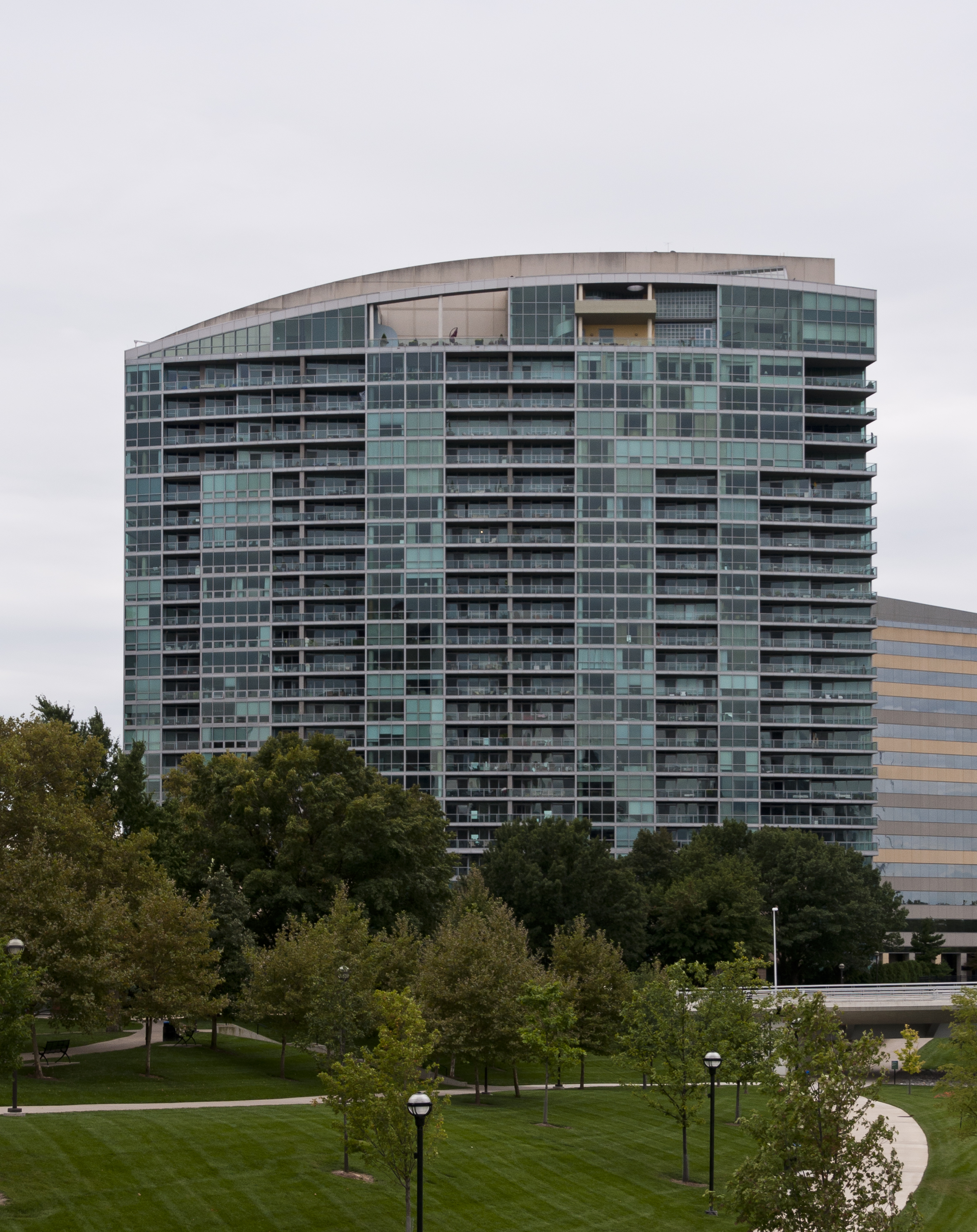 Miranova Place, a 26 floor high residential building built in 2001, located in Downtown, Columbus, Ohio looking from the North.